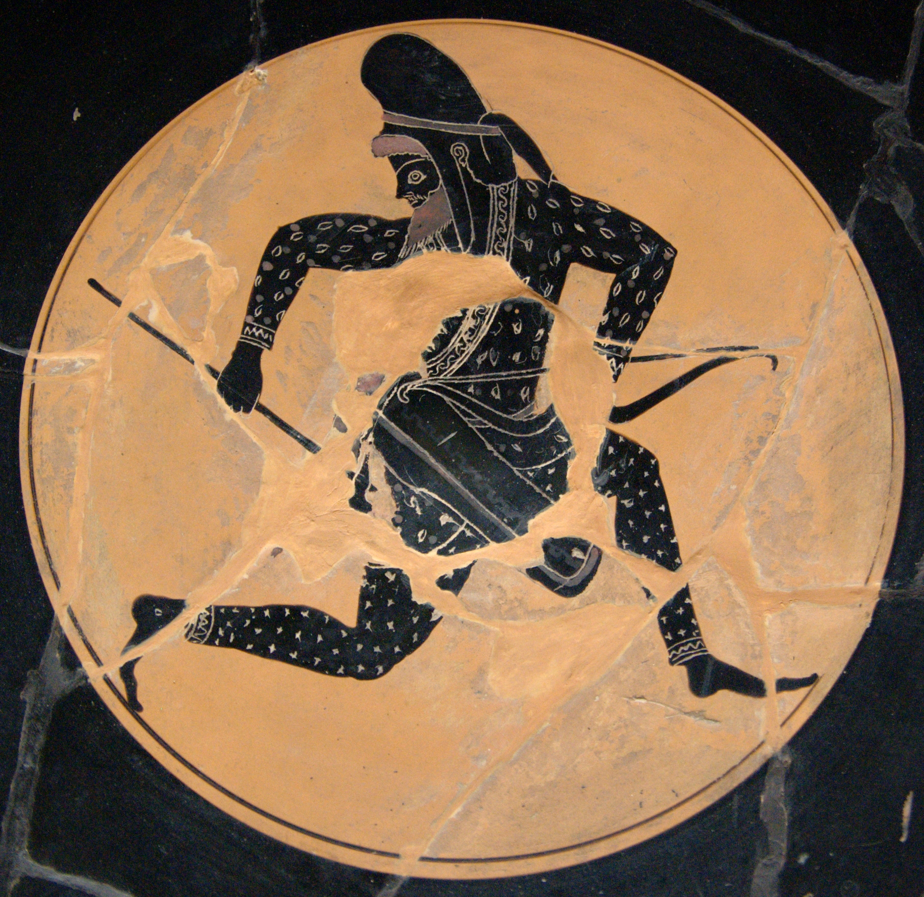 Scythian archer. Black-figure tondo from an Attic bilingual kylix.